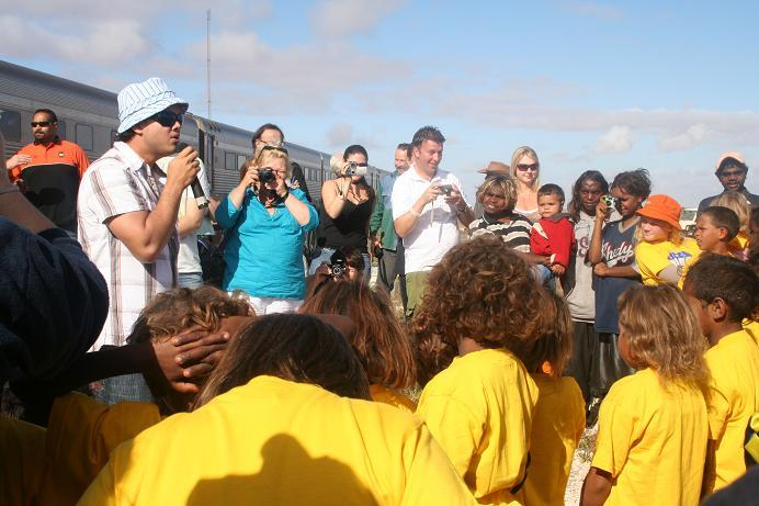 Taken on the Annual Indian Pacific Outback Christmas Journey in 2005. Guy Sebastian performing to children in the Australian outback.